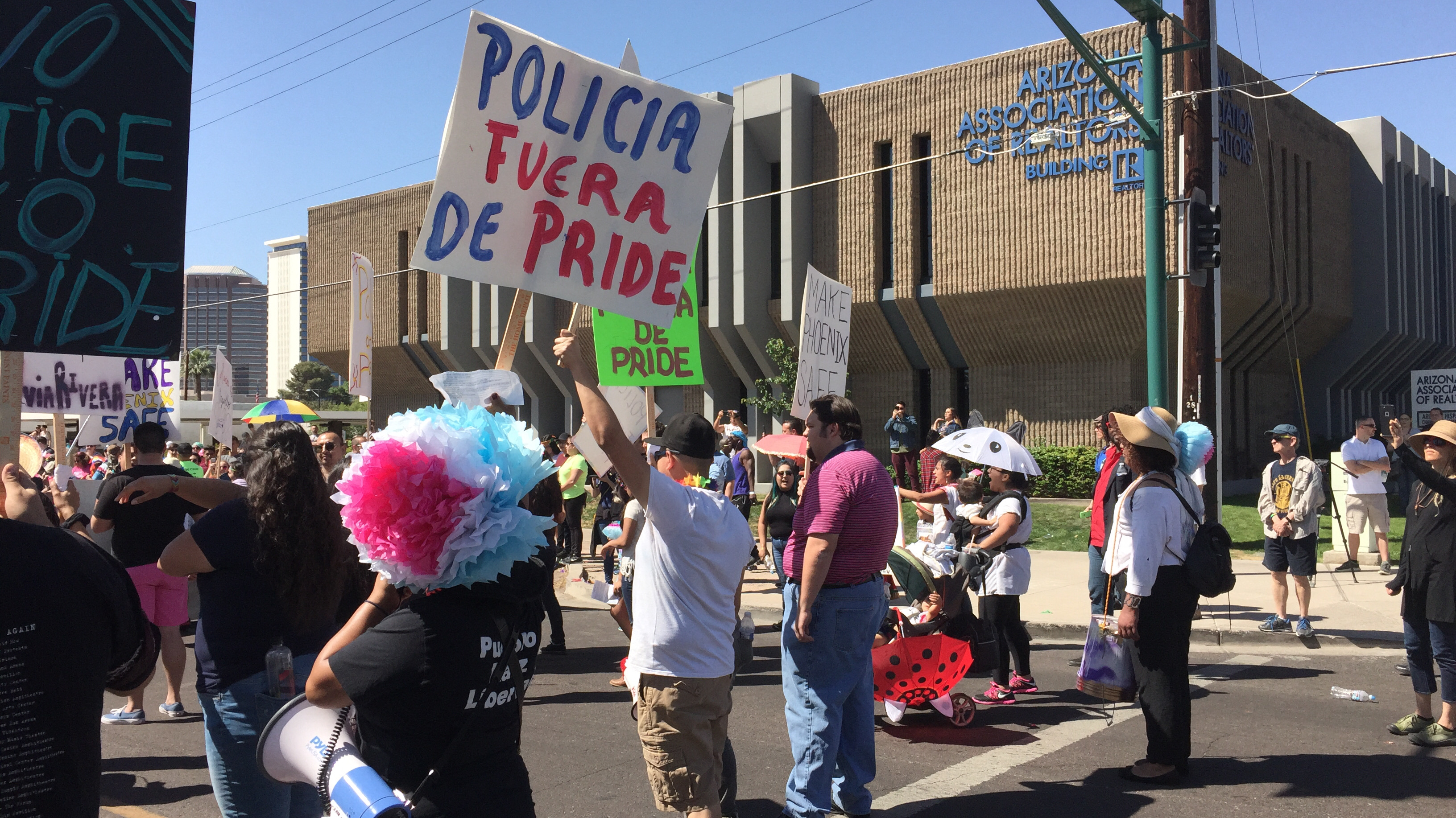 LGBTQ immigrant rights protesters disrupt the parade route at 2017 Phoenix Pride. 中文（香港）: 一群LGBTQ移民權益示威者於2017年美國鳳凰城LGBTQ驕傲遊行 (Pride Parade) 阻擋遊行道路。